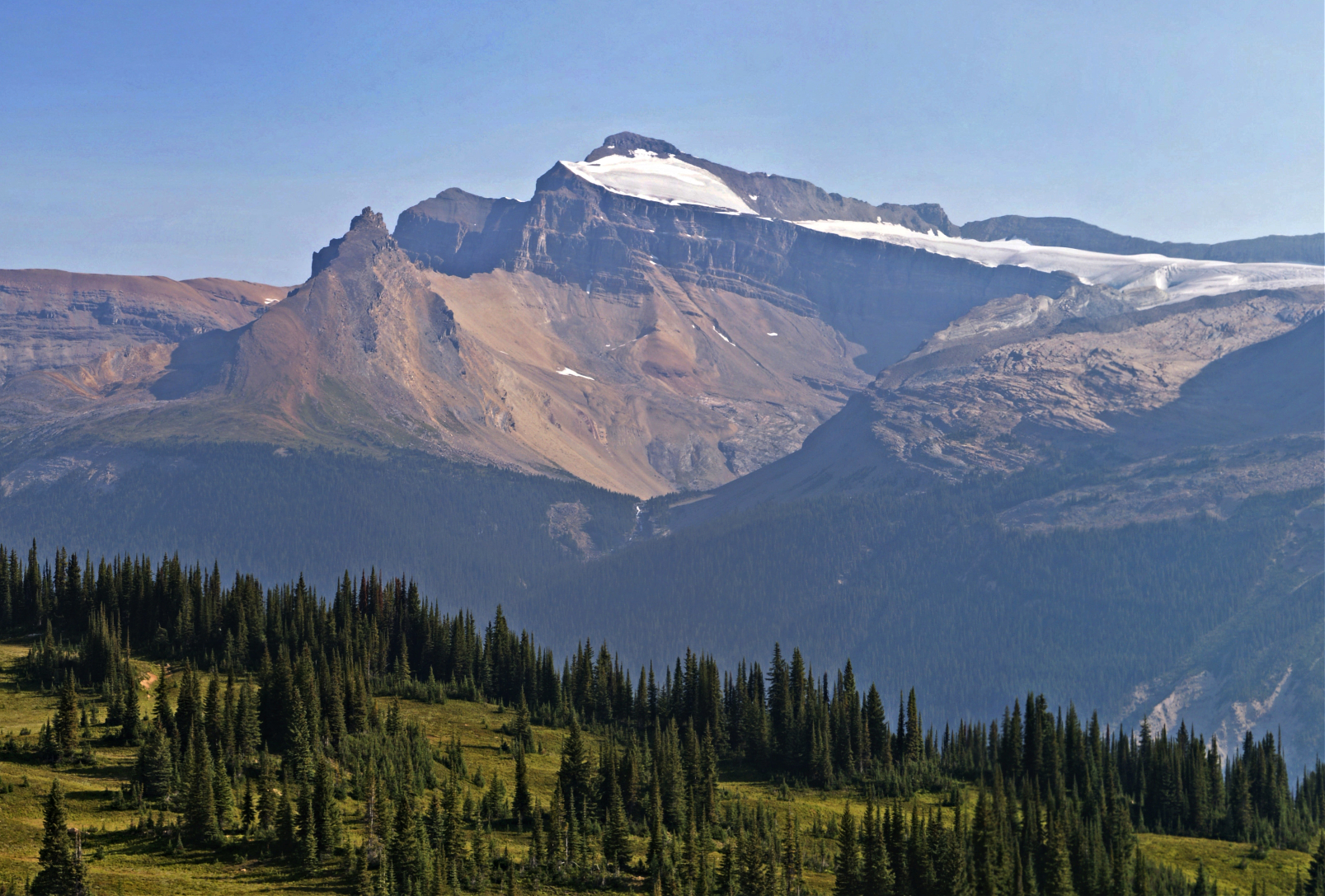 Mount Balfour seen from the Iceline Trail in Yoho Park, Canada